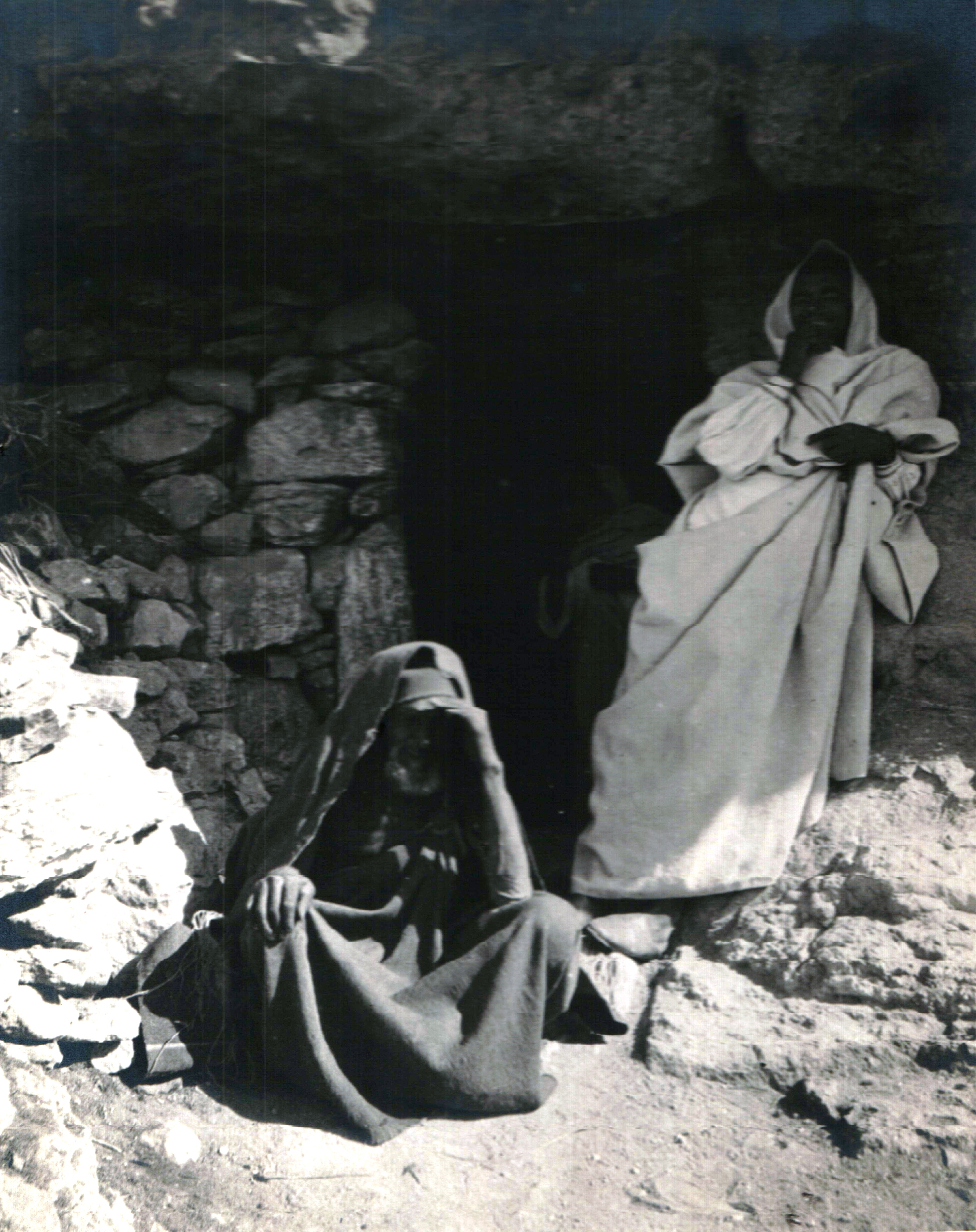 Photos of Sahara desert and other regions of Africa. House in Chenini, Tunisia.